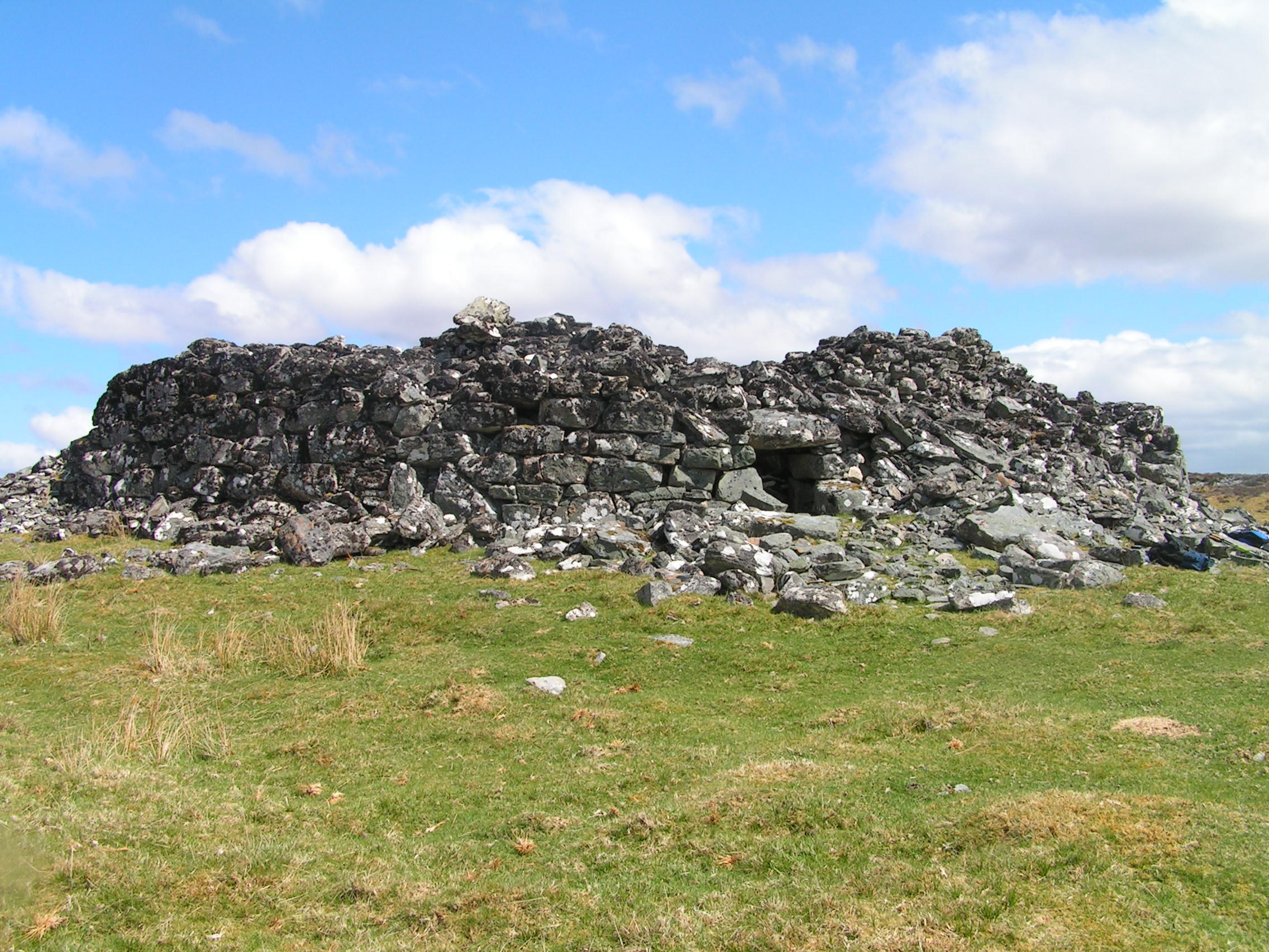 Remains of the broch at Feranach, taken by myself.